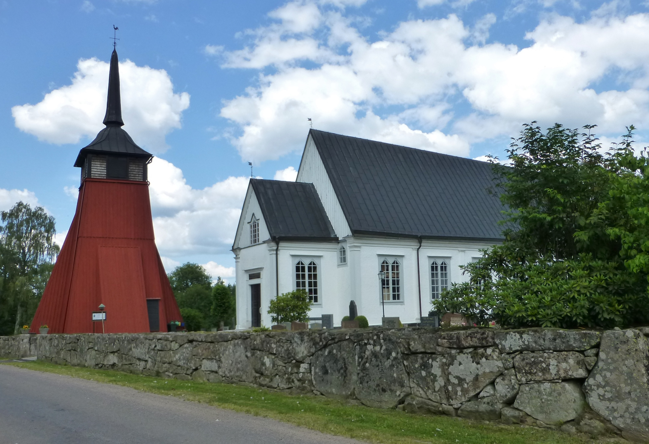 Mistelås Churh. The Church and bell tower